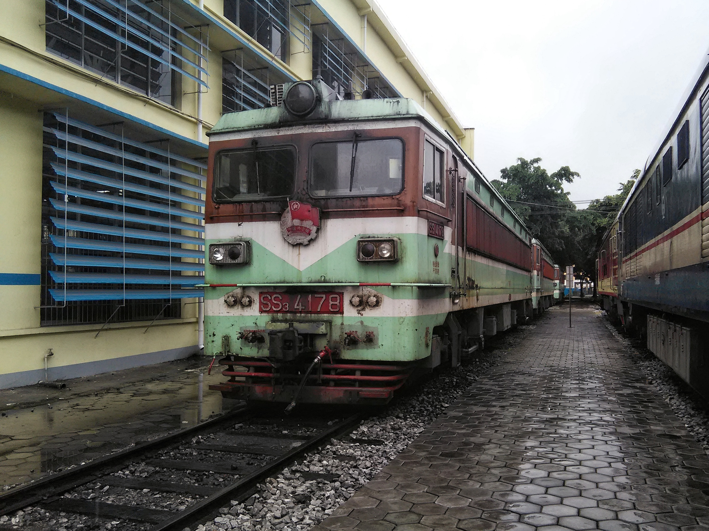 SS3-4178 in Liuzhou Locomotive Depot, June 14th, 2015.